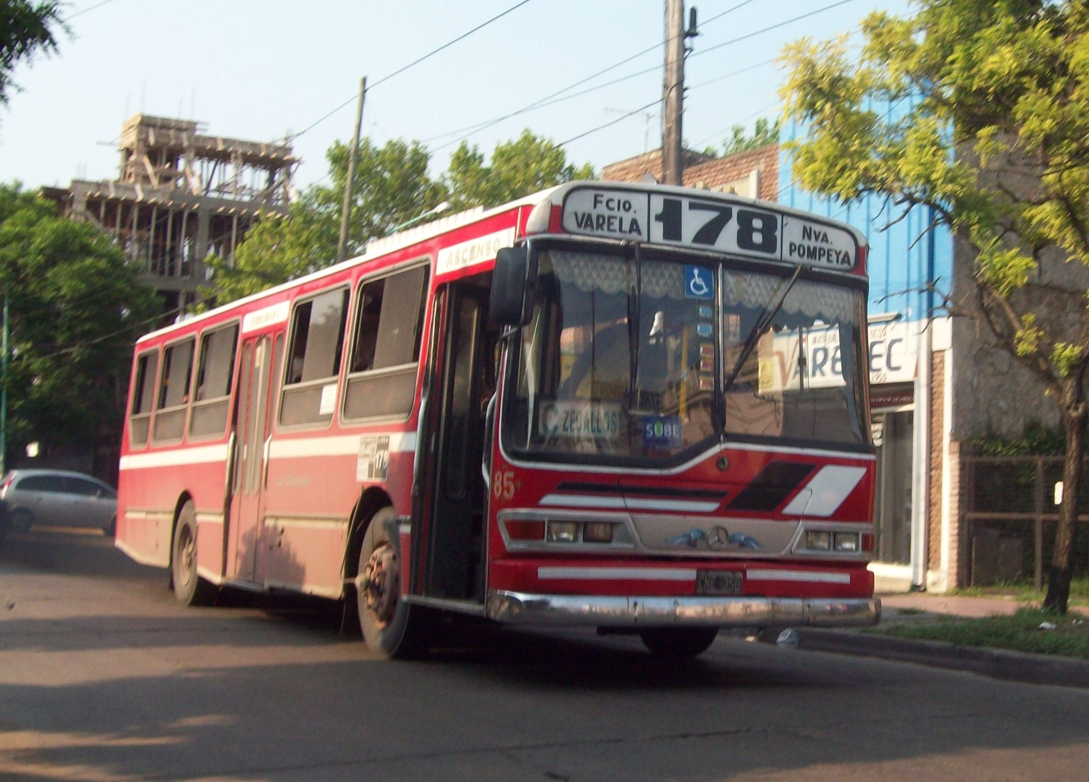 Bus (#85) with Mercedes-Benz chassis in Florencio Varela, Buenos Aires Province, Argentina. Colectivo, line 178, Compañía Microomnibus La Colorada S.A.C.I. operator.